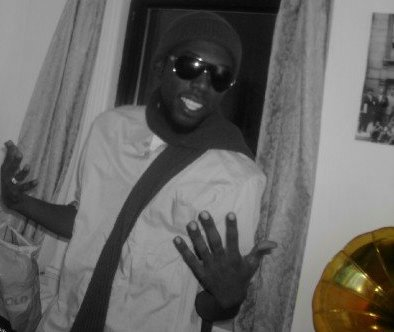 DeLundon at studio session in Washington, DC.